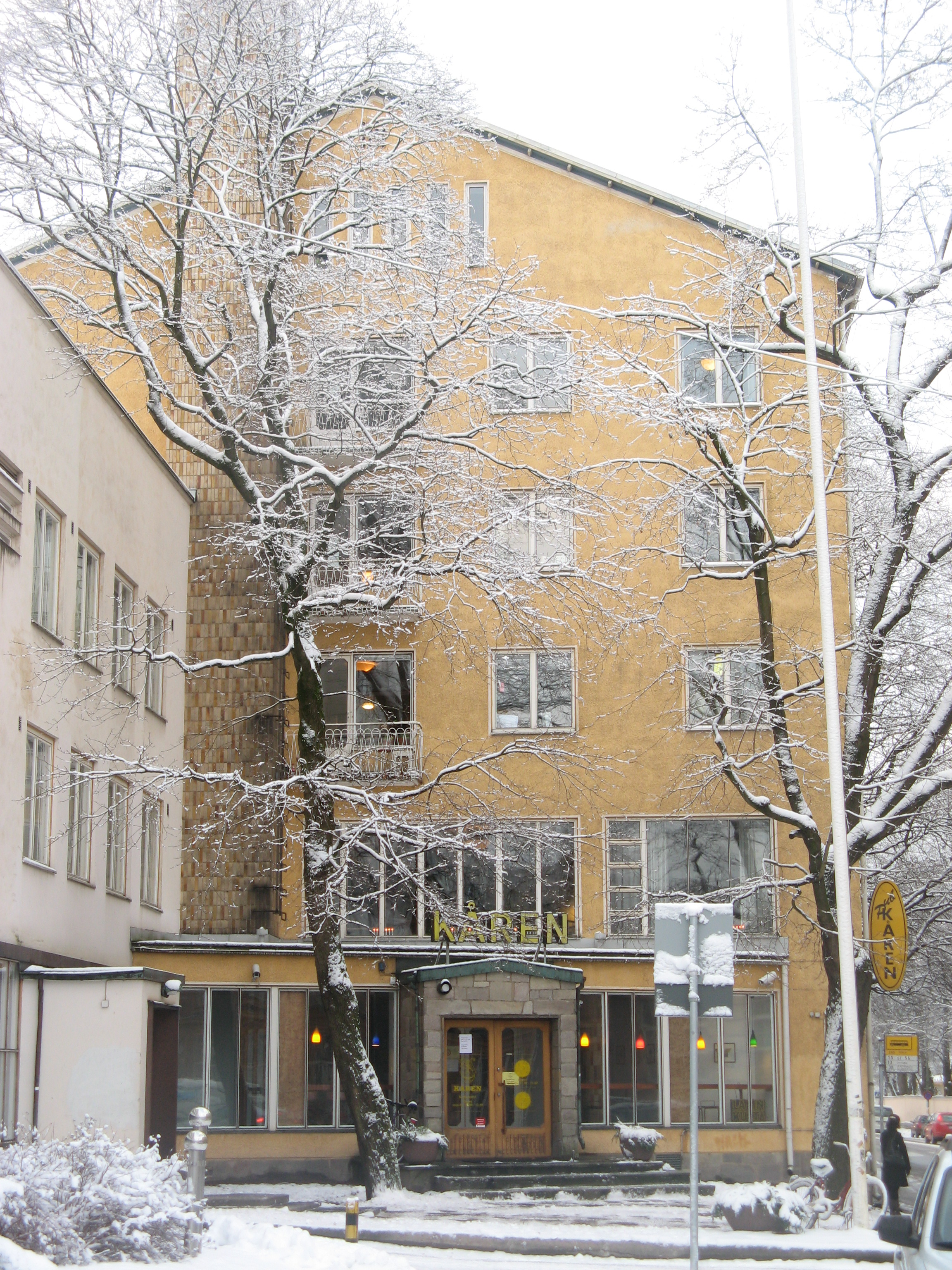 “Kåren”, the house of the Student Union of Åbo Akademi University.